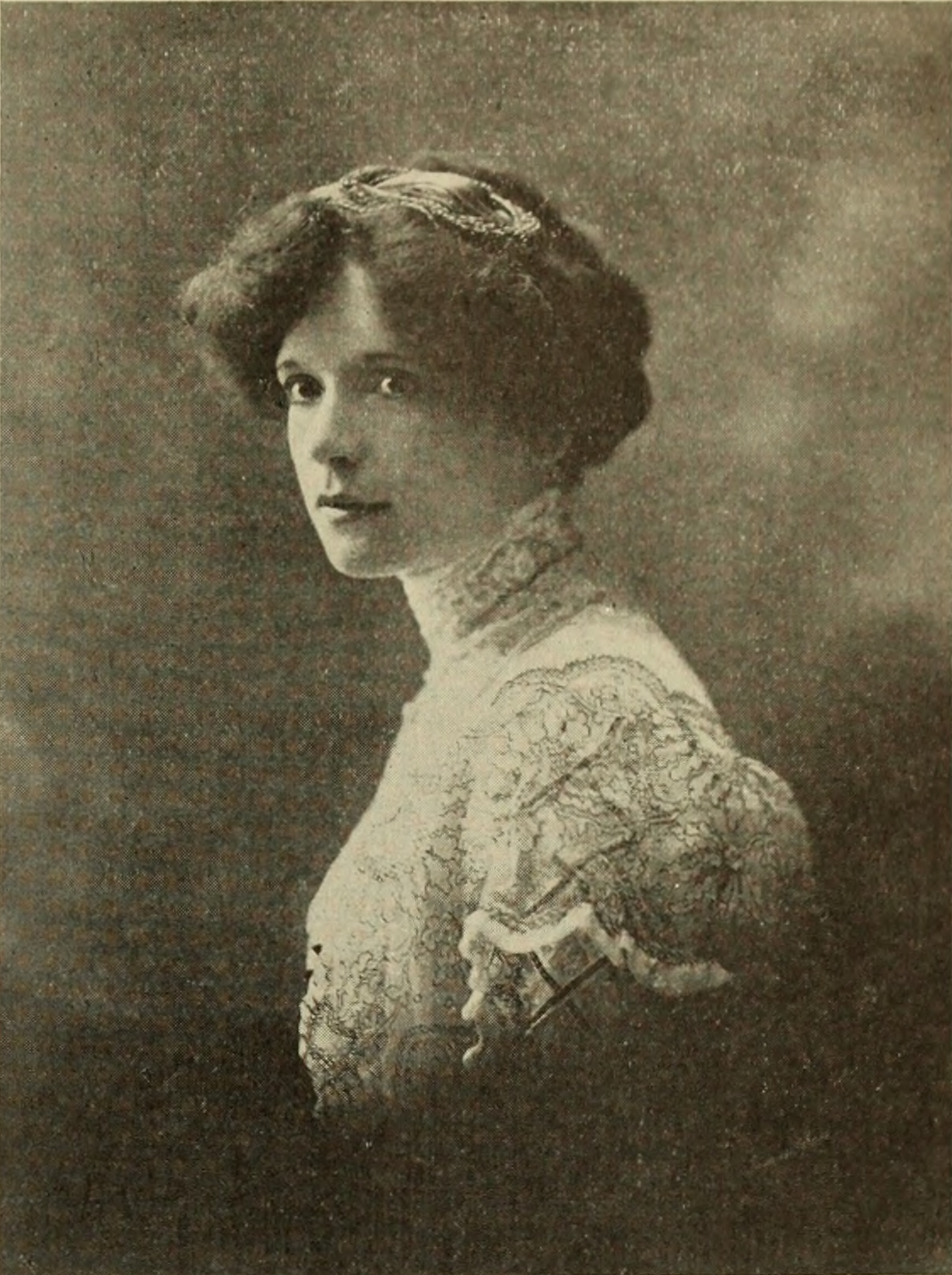 Gene Gauntier, portrait of 1912